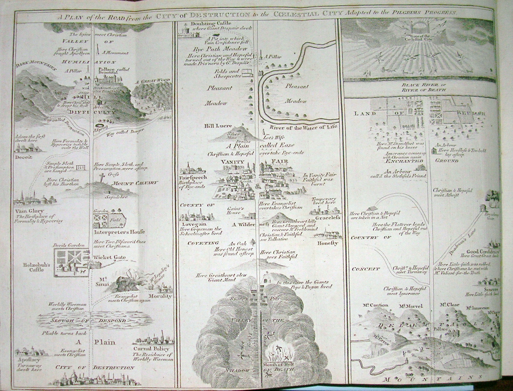 Engraving from The Pilgrim's Progress, published in London, 1778. This is a fold-out map, showing Pilgrim's journey and the various places he passes through.